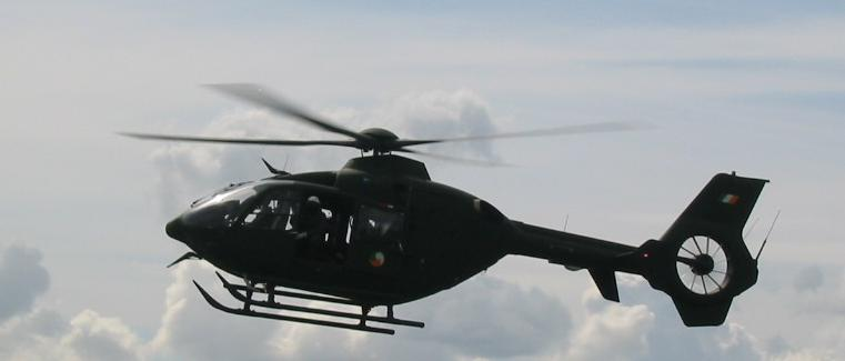 An Irish Air Corps Eurocopter (I believe it is the EC-135) taking off, Curragh 2006.